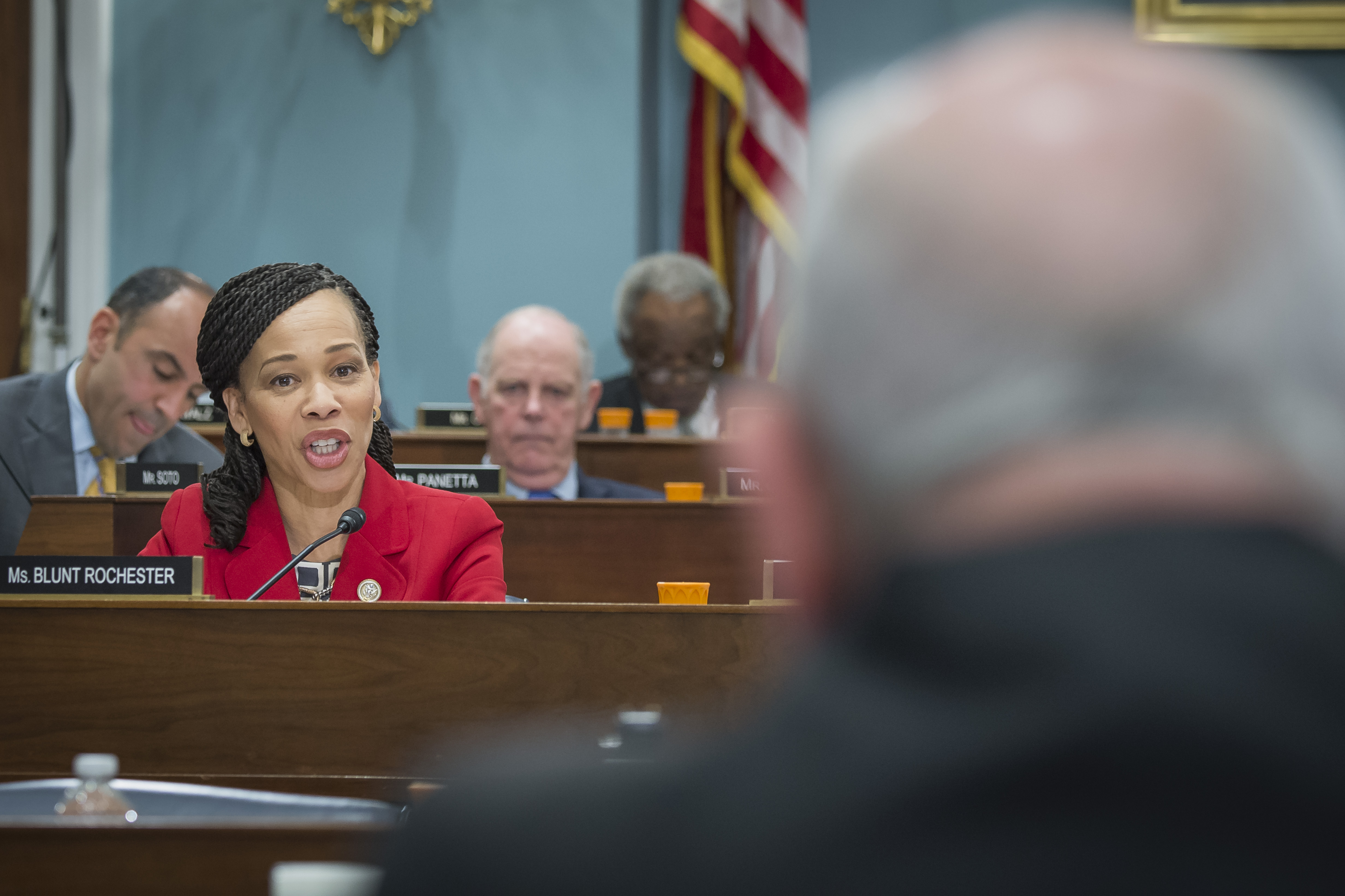 Rep. Lisa Blunt Rochester (D-Del.) asks U.S. Department of Agriculture (USDA) Secretary Sonny Perdue about the Supplemental Nutrition Assistance Program (SNAP) during a hearing in front of the House Committee on Agriculture in Washington, D.C., May 17, 2017, to share his perspective on the economic outlook in rural America along with his vision for USDA and the role it will play in ensuring that our country continues to enjoy the safest, most abundant, and most affordable food supply in the world. USDA photo by Preston Keres